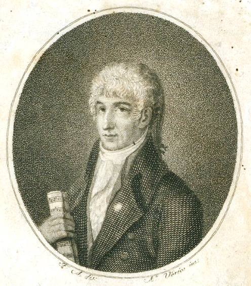 Engraved portrait of Italian opera singer Carlo Angirani (1760–?)